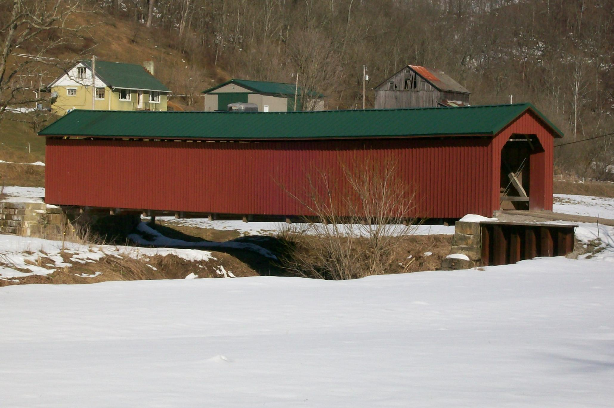 The Foreaker Covered Bridge is the last active covered bridge in Monroe County, Ohio. The bridge carries traffic from Plainview Road over the Little Muskingum River. Camera is facing east from Stonehouse Road. Taken March 4, 2010.